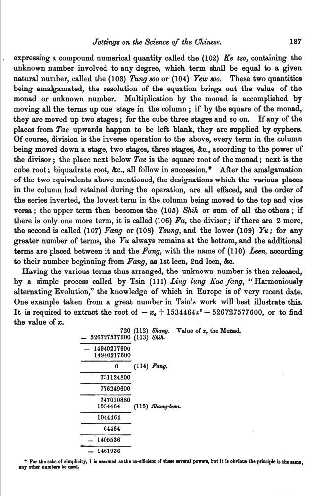 Alexander Wylie on Qin Jiushao's Ling Lung Kae fang